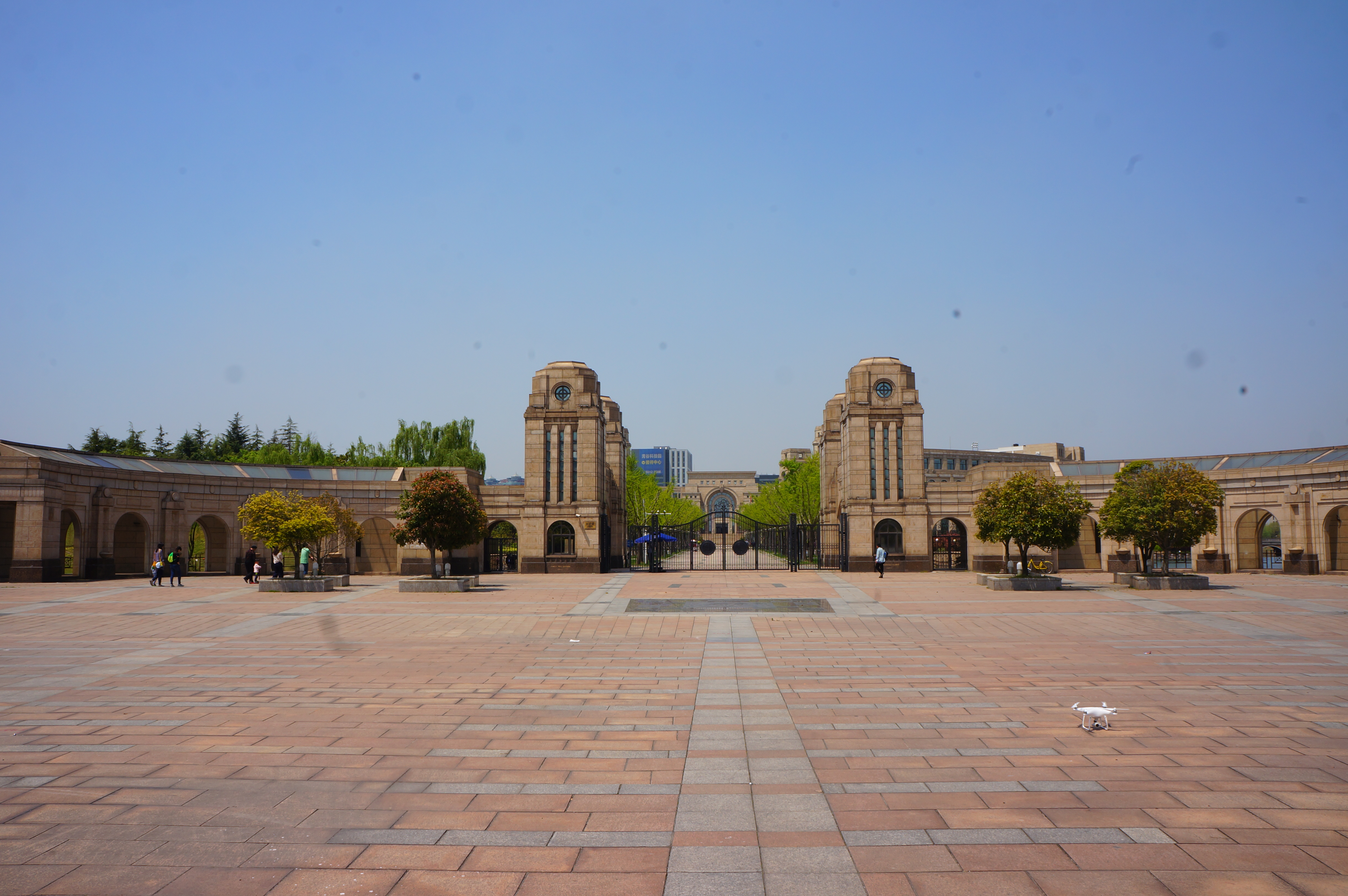 201704 Gate of Fudan University Jiangwan Campus, with a drone nearby.